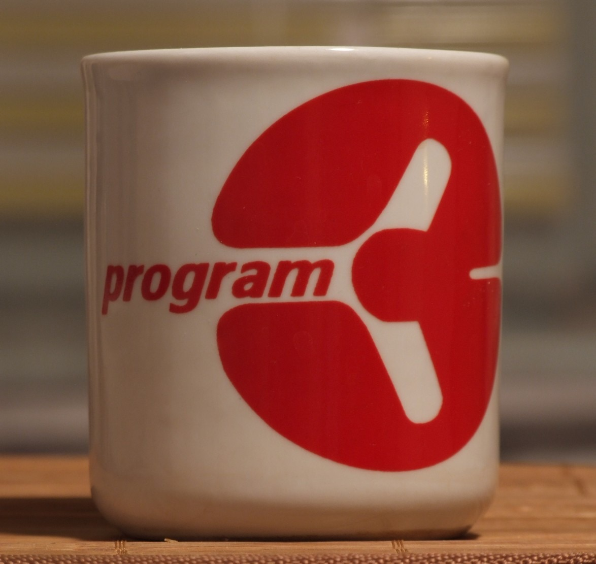 a mug with the logo of Polish Radio Program Three, classic logo. Author: Mohylek 11:09, 6 October 2006 (UTC)